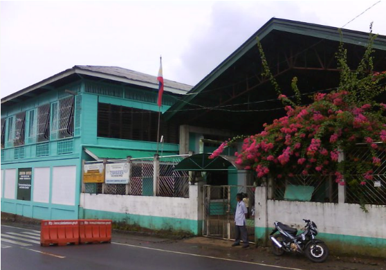 The Liberation Institute - Founded in 1946, it is Calamba's prime Protestant academic insitution